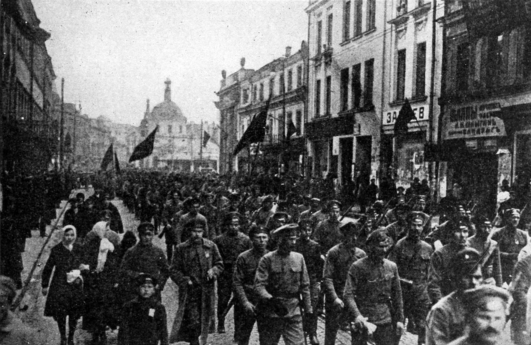 Title: The people's war book; history, cyclopaedia and chronology of the great world war Year: 1919 (1910s) Authors: Miller, J. Martin (James Martin), b. 1859 Canfield, Harry S. (from old catalog), joint author Plewman, William Rothwell, 1880- (from old catalog) Foch, Ferdinand, 1851-1929 Lloyd George, David, 1863-1945 United States. President (1913-1921 : Wilson) Subjects: World War, 1914-1918 World War, 1914-1918 Publisher: Cleveland, O., The R.C. Barnum co. Detroit, Mich., The F.B. Dickerson co. (etc., etc.) Text Appearing Before Image: Baby tanks aid in French reconstruction work. Whippet tanks were dismantled and employed inagricultural work. This one is hauling a canal boat loaded with foodstuffs. Text Appearing After Image: The Bolshevik revolution in Moscow, Russia. 466 THE PEOPLES WAR BOOK authorized the giving out of the announcement ofthe armistice signing, believing it to be authentic. Nov. 7—Twenty thousand deserters from the GermanArmy are marching through the streets of Berlin. ^A large part of the German Navy and a great partof Schleswig are in the hands of the revolutionists,according to reports received in Copenhagen fromKiel and forwarded by the Exchange TelegraphCompany. All of the workshops have been oc- ■ cupied by the Red troops and Kiel is governed bya Marines, Soldiers and Workers Council. All thestreet car lines and railways are under control ofthis council. ■—Virtually all the German fleet has revolted, accord-ing to a despatch received from The Hague. Nov. 8—Germanys armistice delegates were re-ceived by Marshal Foch at 9 A. M. in a railroadcar in which the Commander-in-Chief has his head-quarters. Matthias Erzberger, leader of the enemydelegation, speaking in French, annou